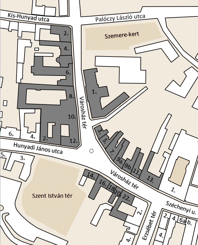 Map of Városház Square, Miskolc, Hungary